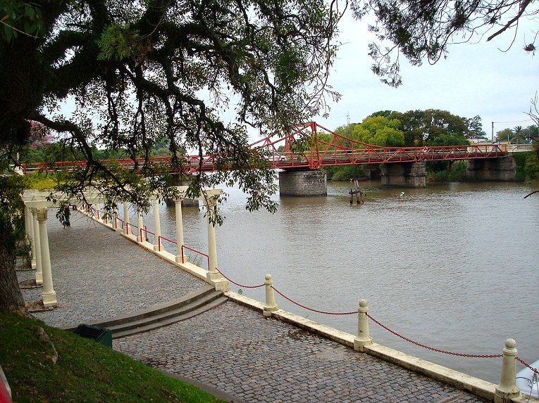 Rambla de los Constituyentes, Carmelo, Colonia Department, Uruguay.